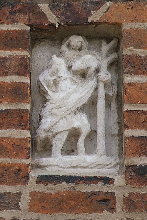 Sculpture St. Christopher St. Peter church Malmo Sweden about 1460